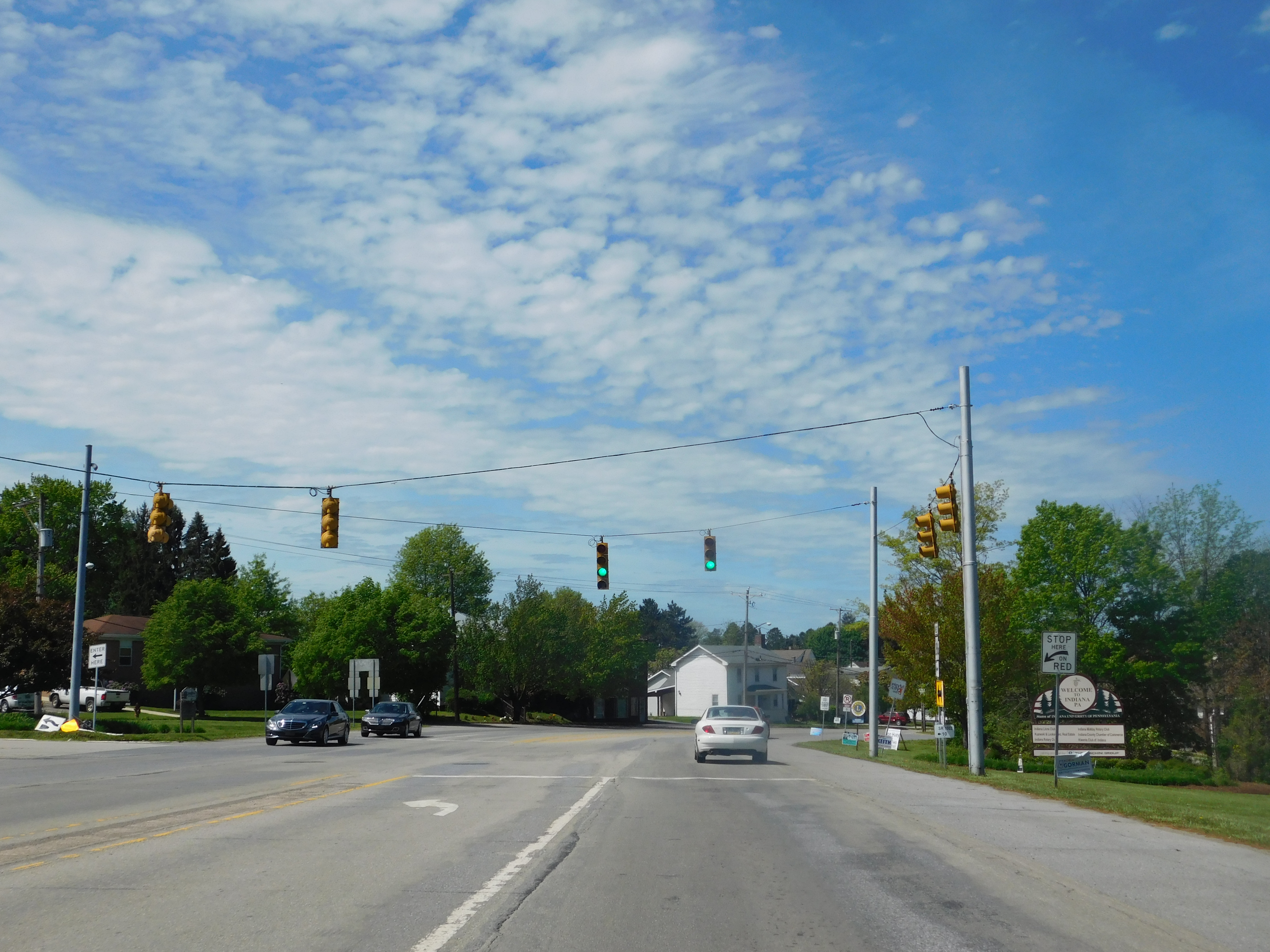 Pennsylvania Route 286 in Indiana, Pennsylvania.